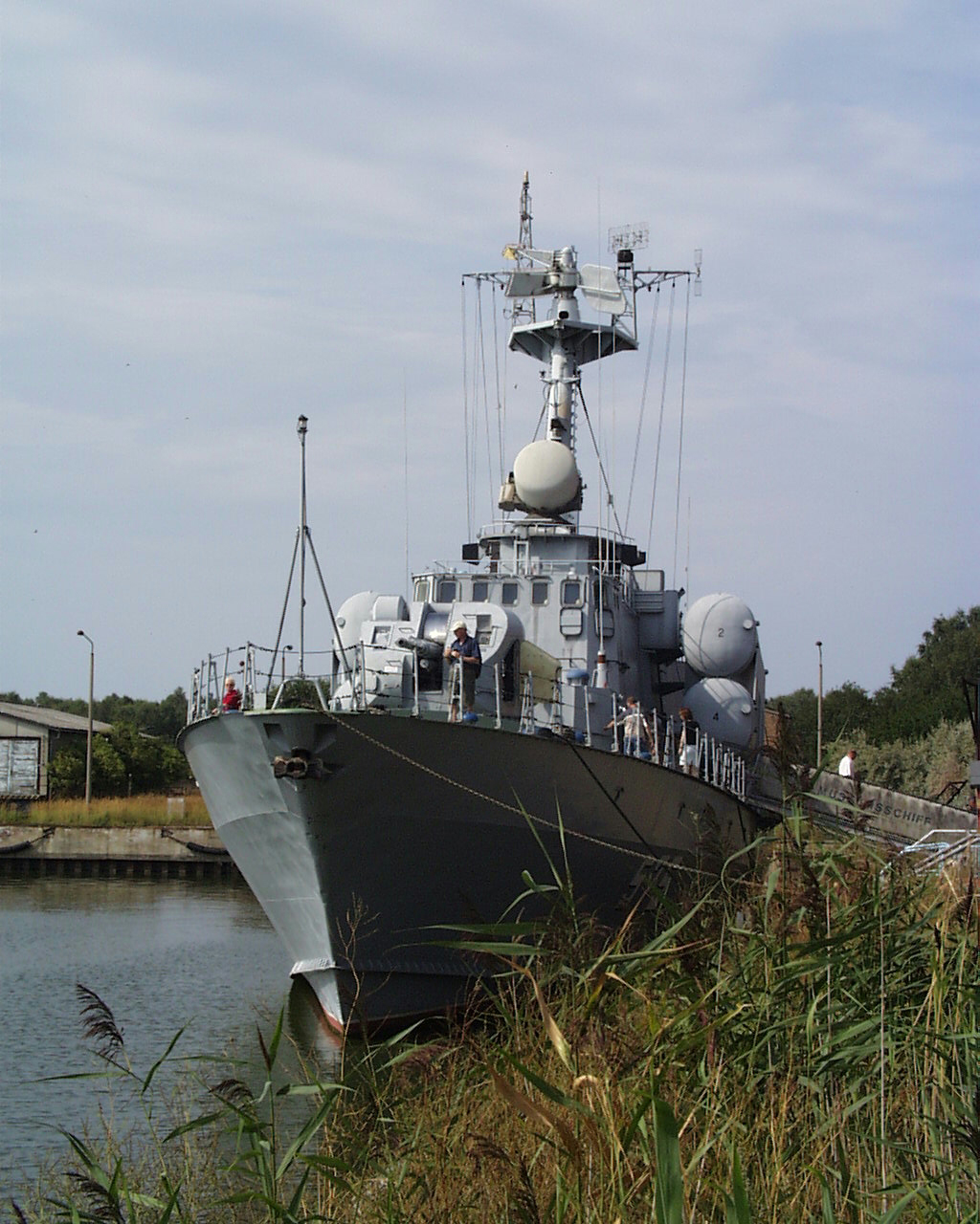 Peenemünde Historical and Technical Information Centre: a Tarantul class missile craft of the GDR-Volksmarine "Hans Beimler" Nr. 575